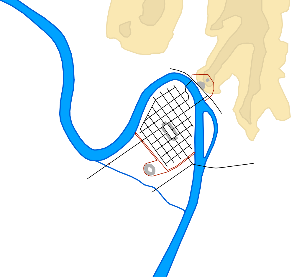 Ancient Verona